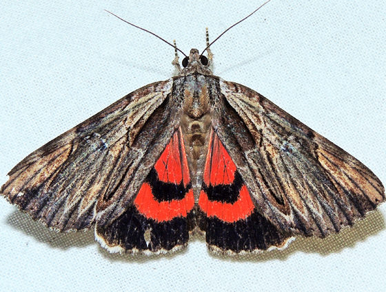 7/11/14 Franklin County Photo and ID thanks to Jack Foreman